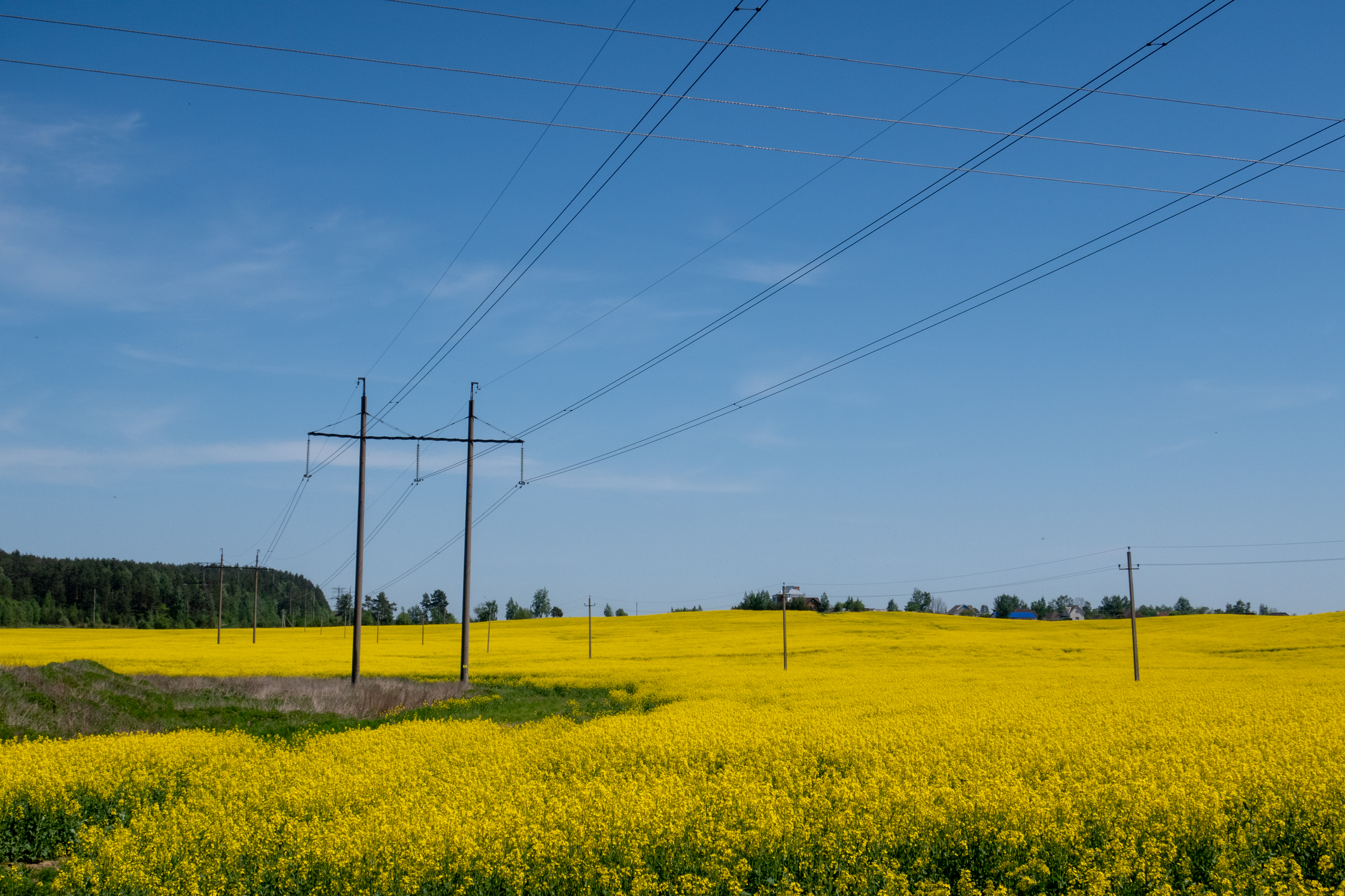 Rapeseed field near Minsk (Belarus)